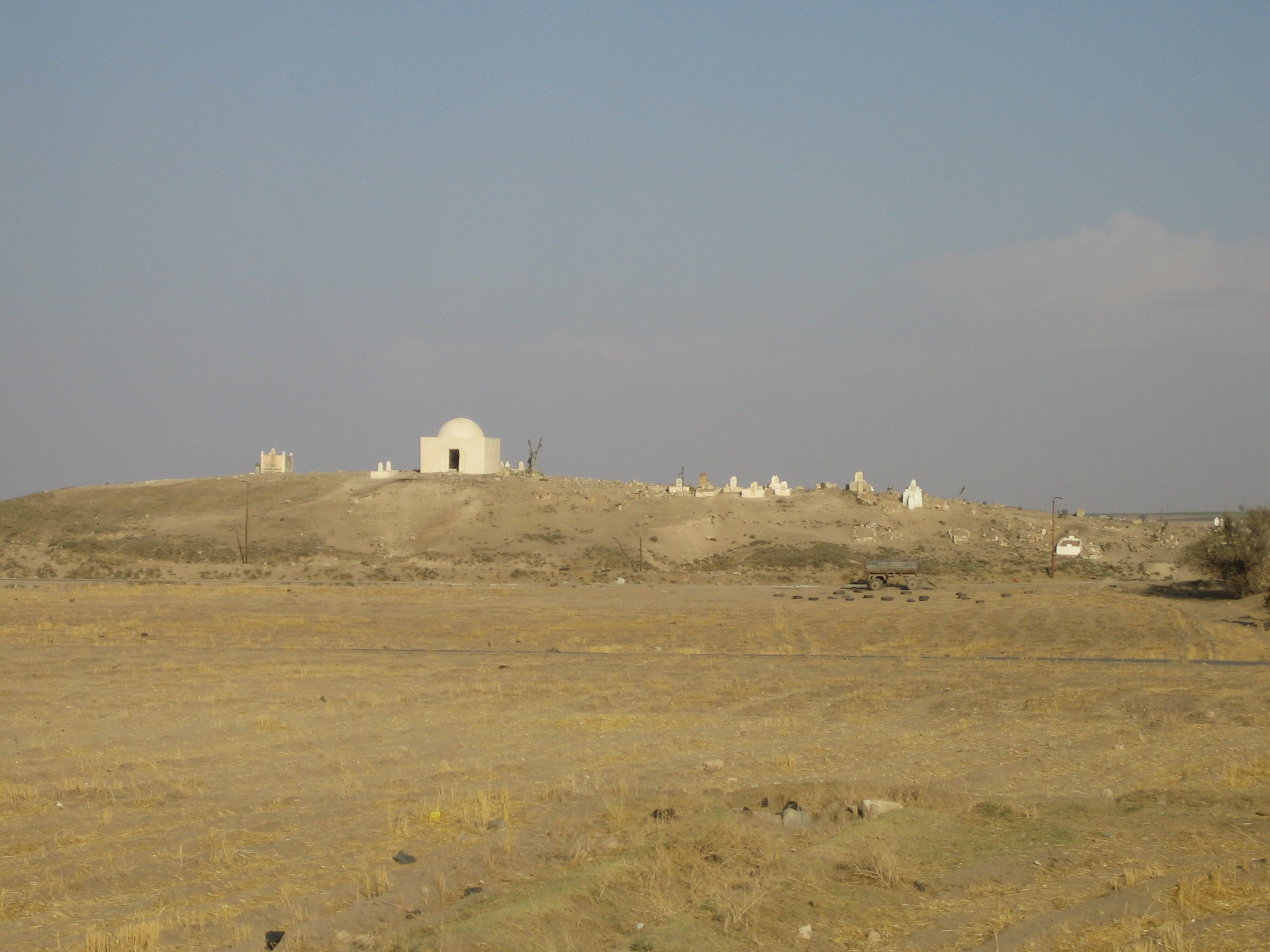 Tell Fecheriye, view from the East